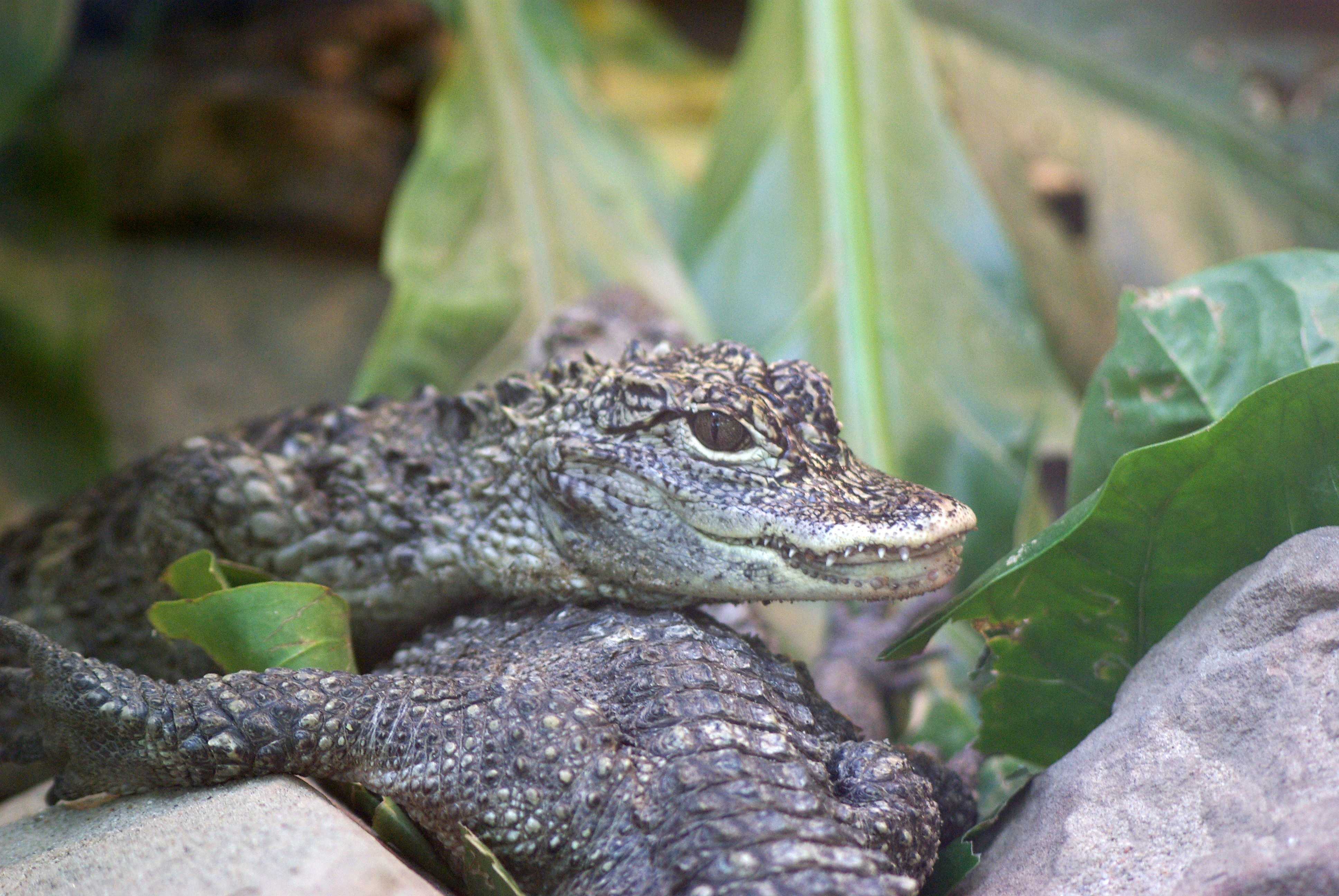 Alligator sinensis